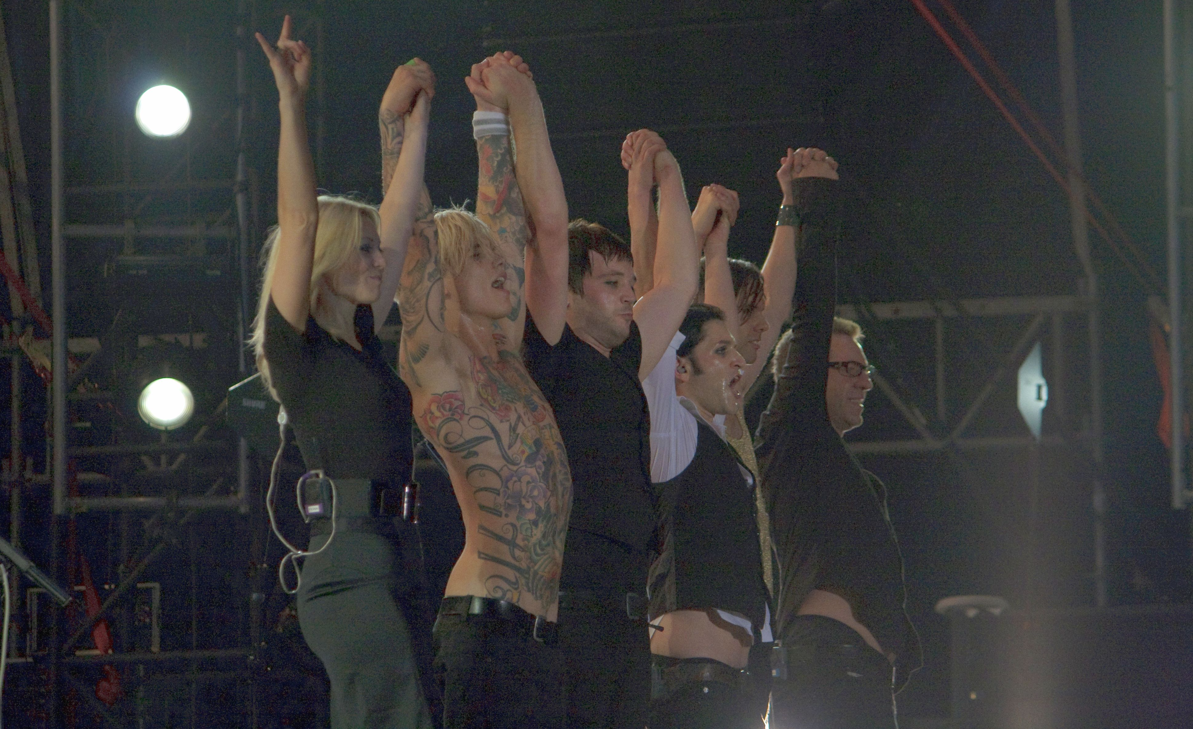 Rock band Placebo and additional live lineup wave goodbye at Sziget Festival 2009